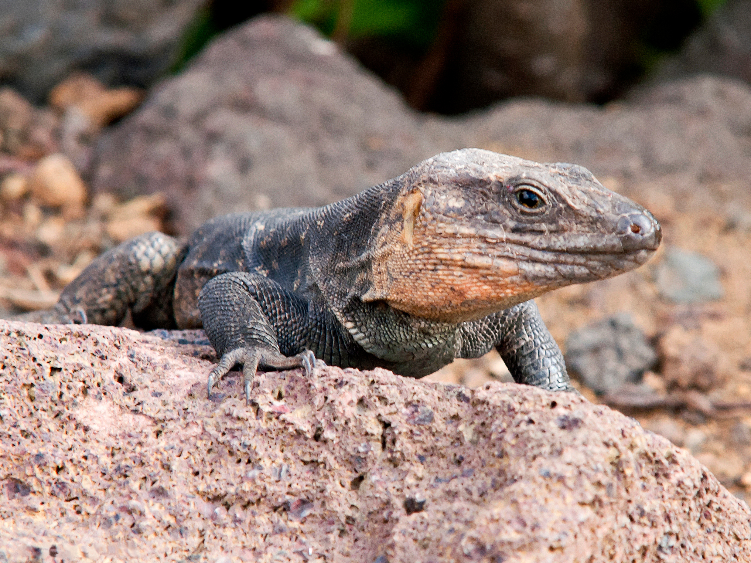 A Gran Canaria Giant Lizard on Gran Canaria, Canary Islands, Spain.